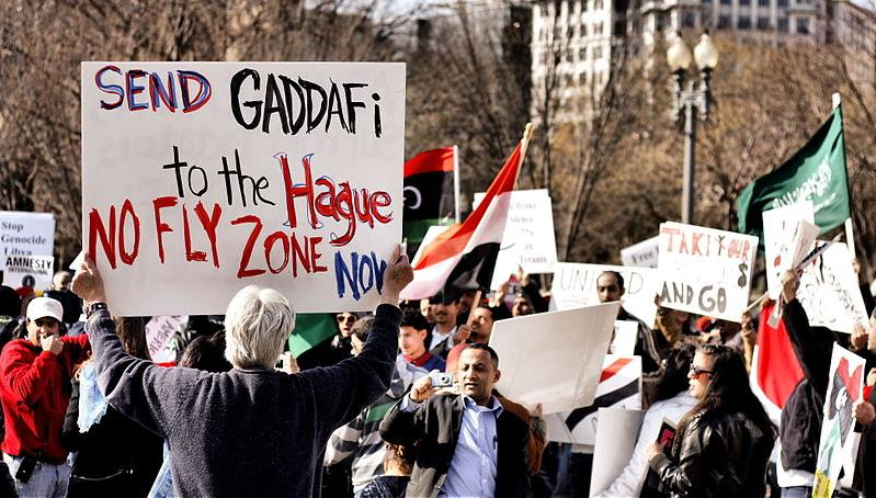 A protest in front of the White House in support of protesters and rebels throughout the Middle East. There were signs and flags representing Libya, Yemem, Syria, Saudia Arabia and Egypt. I felt sorry for one lone protester nearby who was urging people to become vegetarians. NOTE: Photo taken prior to the start of the no-fly zone over Libya.